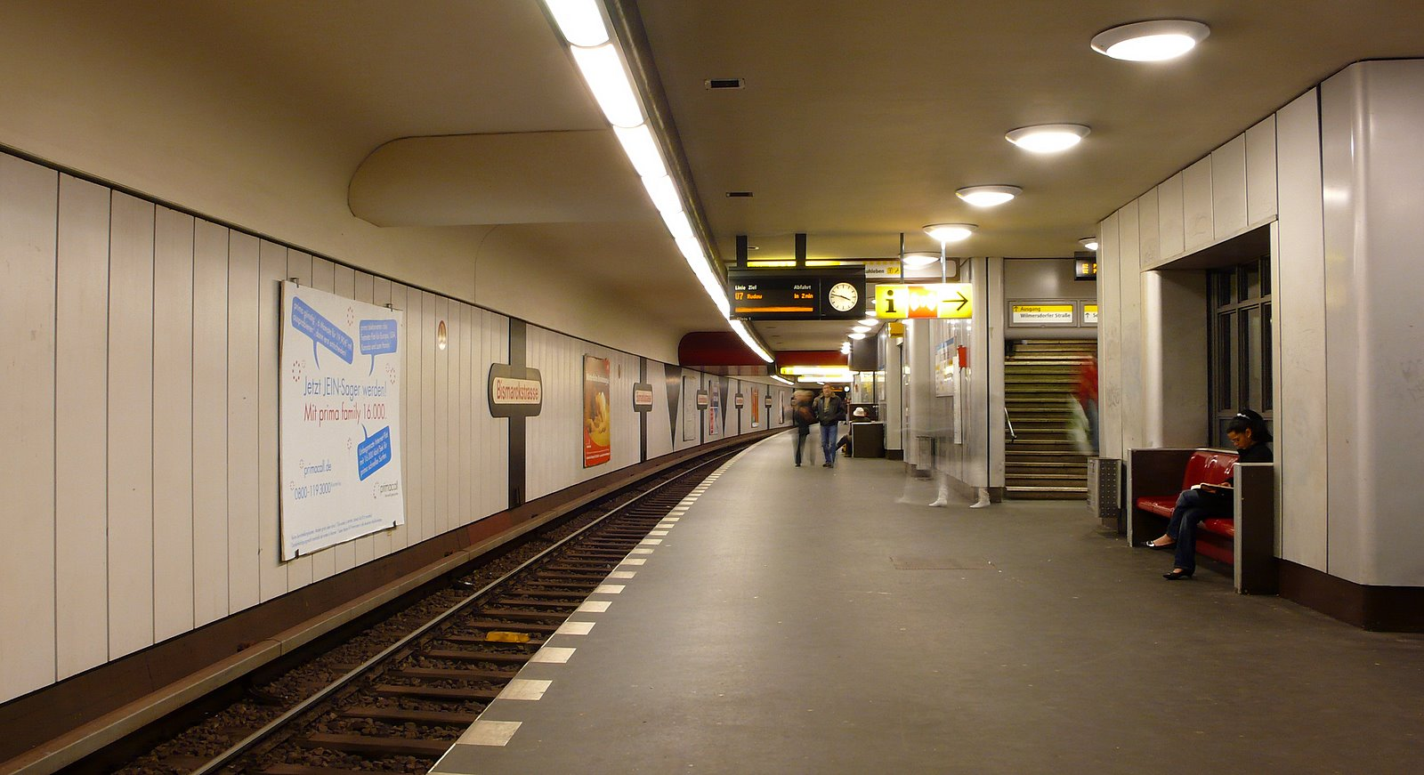 Subway U7 Berlin Bismarckstr